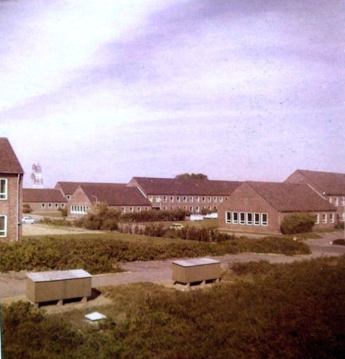 Briesen barracks around 1975